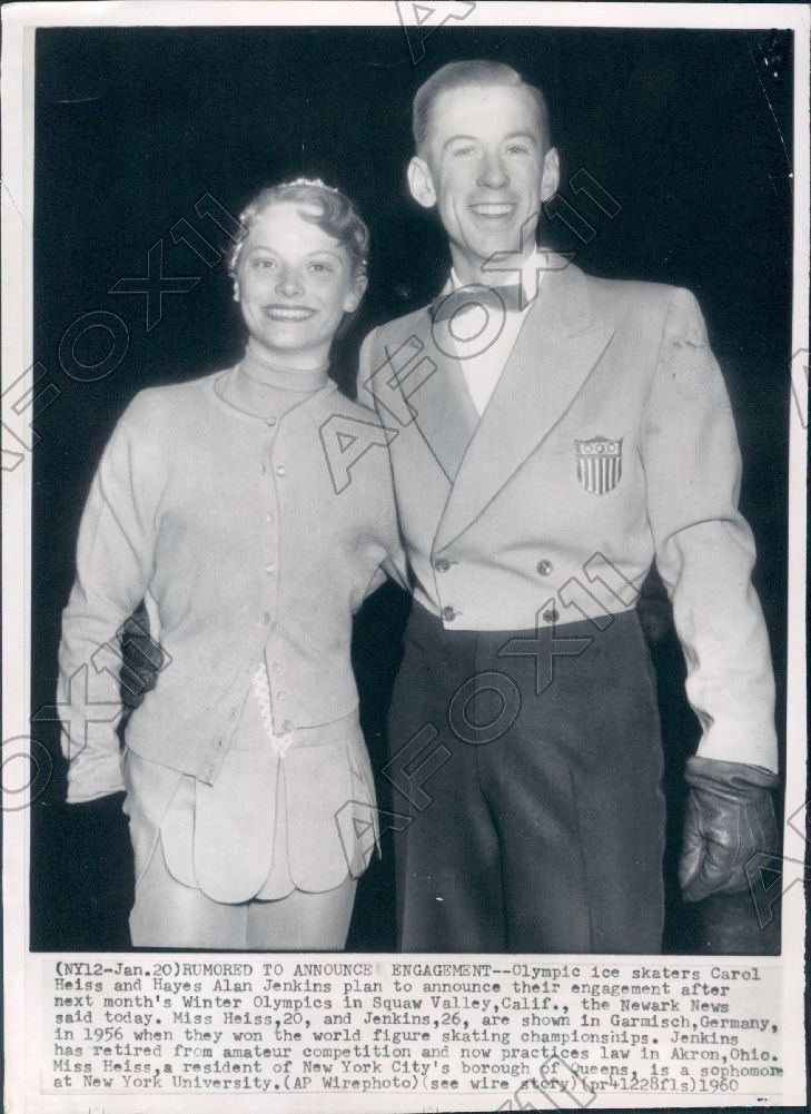 1960 Olympic Figure Skater Carol Heiss and Hayes Alan Jenkins Engaged Press Phot